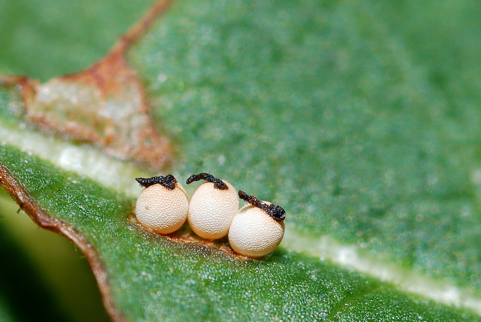 Galerucella (leafbeetle) eggs On a Polygonum bistorta leaf